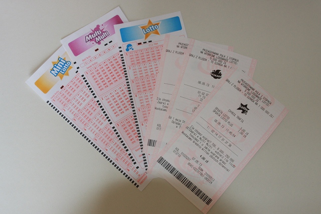 Kupony i blankiety gier LOTTO